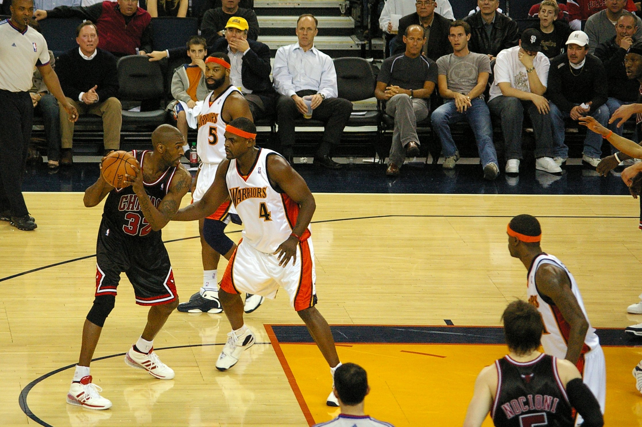 Joe Smith (Chicago Bulls), Chris Webber (Golden State Warriors)